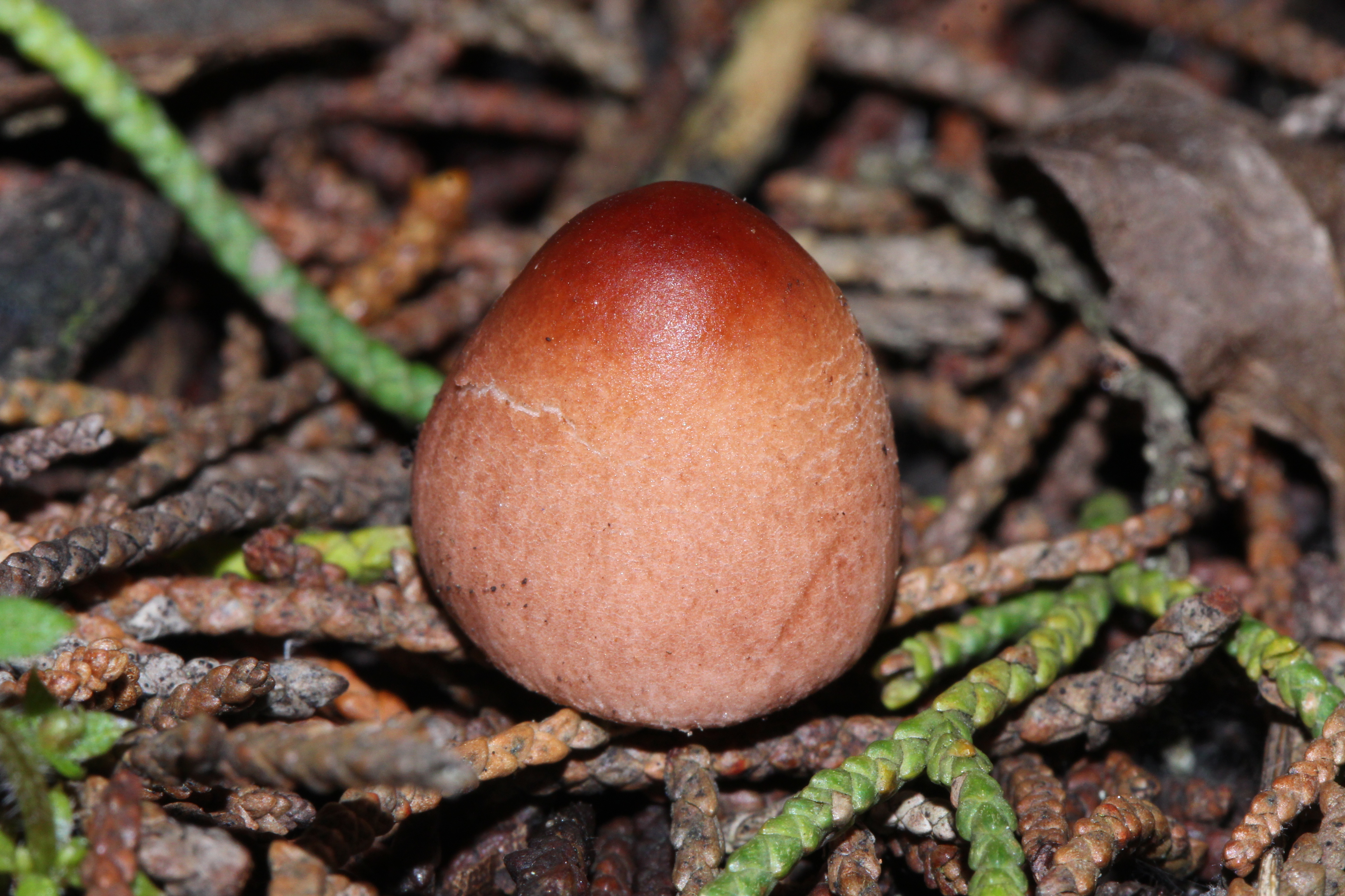 A pileus (cap) of a young fruit body of the agaric fungus Lepiota castaneidisca Murrill. Photographed in Crystal Springs Watershed, San Mateo Co., California, USA. "Notes: Under cypress. Odor pungent and slightly unpleasant." See Mushroom Observer page for more detailed collection notes.